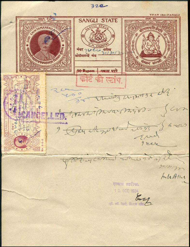 1934 5 rupee court fee stamp on 50 rupee Sangli State stamped paper.